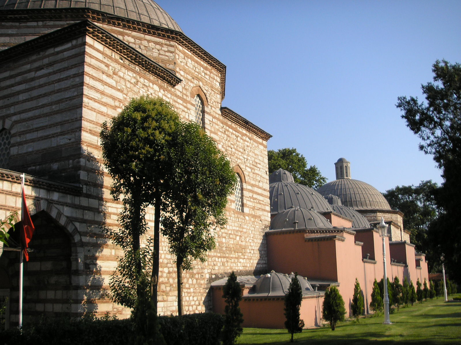 The turkish bath (hamam) constructed by Haseki Hürrem Sultan, known in the West as Roxelana or Roxelane. Located in Istanbul close to the Hagia Sophia.